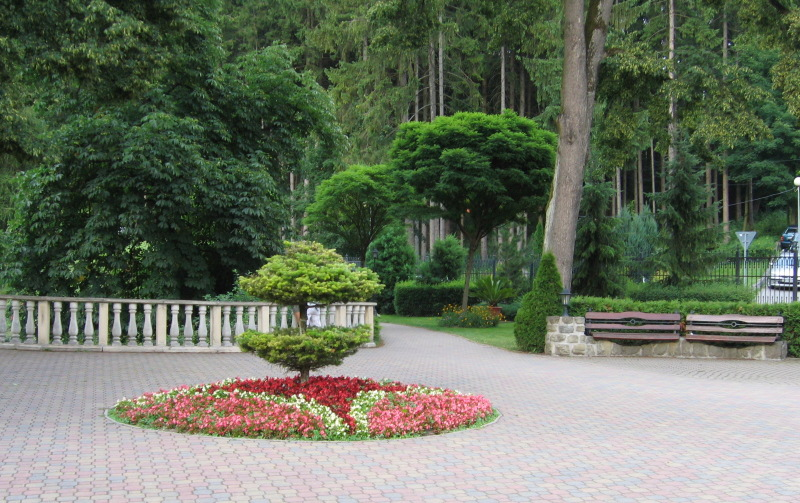 Rajecké Teplice, park around a pool